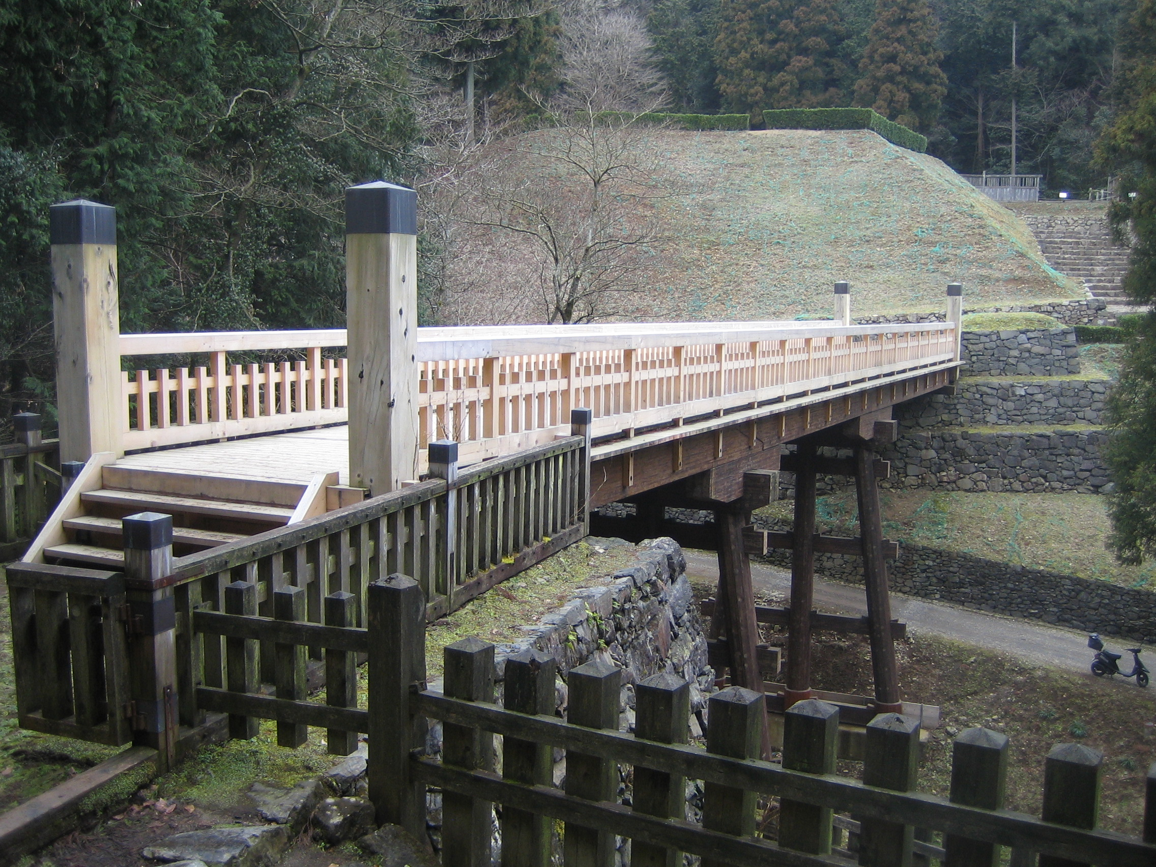 Hiki-bashi bridge and Goshuden stone wall, Hachioji-jo